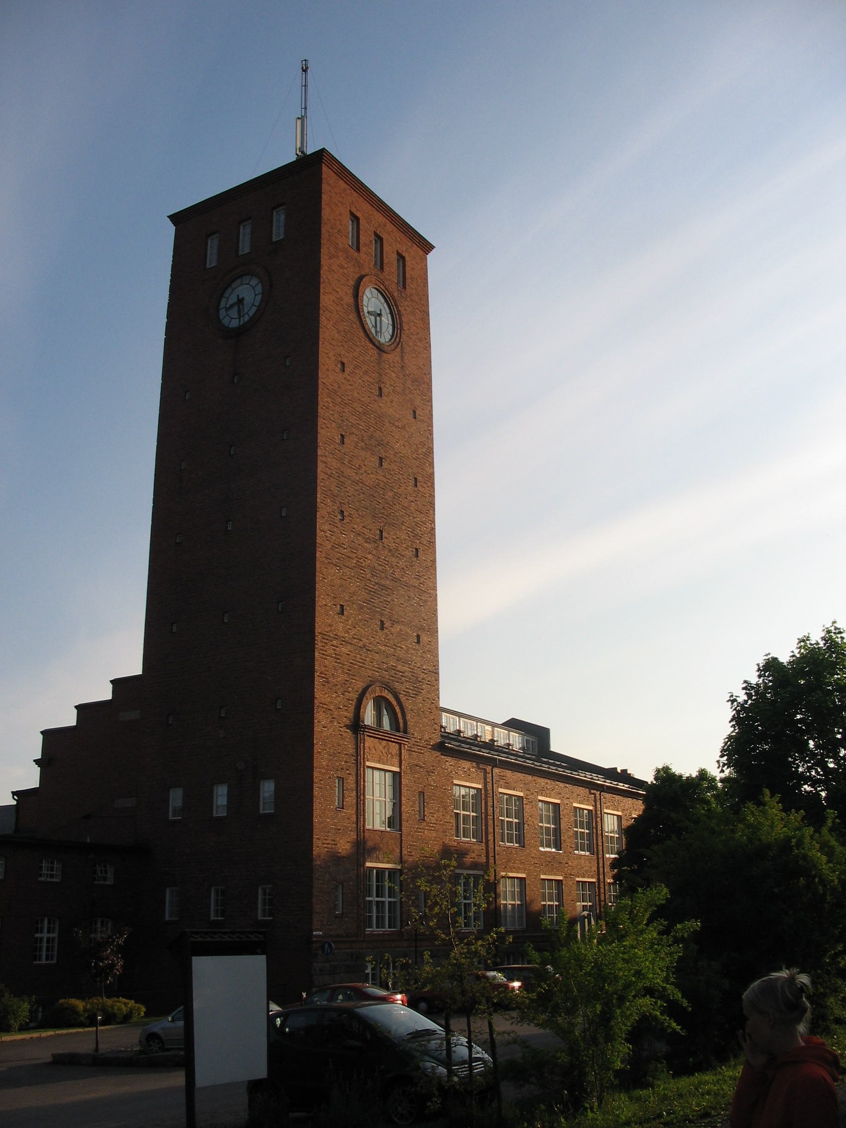 The bell tower of Littoinen broadcloth factory in Lieto, Finland